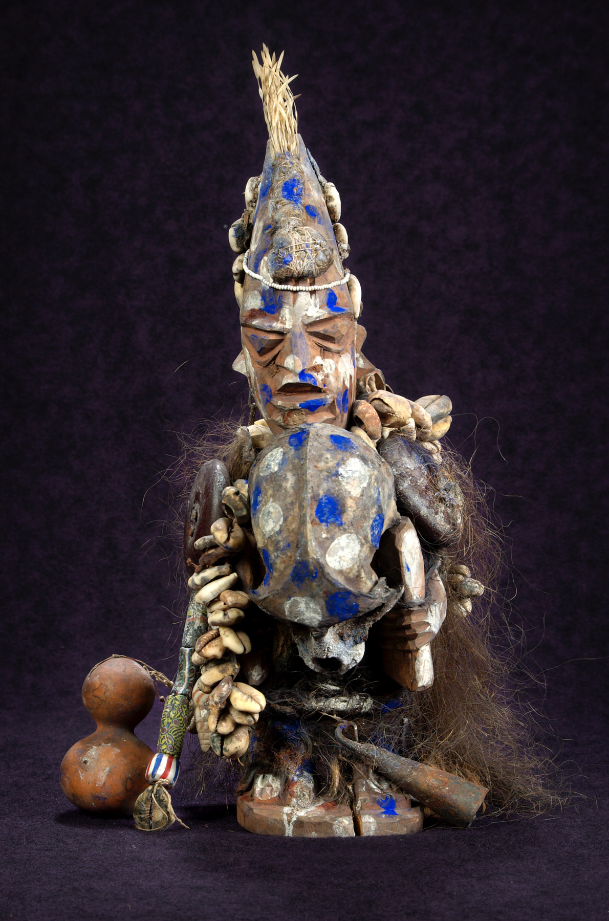 This is a statue of Shapona, the West African God of Smallpox. It is part of the CDC’s Global Health Odyssey (GHO) collection of artifacts. A uniquely carved wooden figure, it is adorned with layers of meaningful objects such as monkey skulls, cowrie shells, and nails. Donated in 1995 by Ilze and Rafe Henderson, it was created by a traditional healer who made approximately 50 Shaponas as commemorative objects for the CDC, WHO, and other public health experts attending a 1969 conference on smallpox eradication. Smallpox was thought to be a disease foisted upon humans due to Shapona’s “divine displeasure”, and formal worship of the God of Smallpox was highly controlled by specific priests in charge of shrines to the God. People believed that if angered, the priests themselves were capable of causing smallpox outbreaks through their intimate relationship with Shapona. Suspecting that the priests were deliberately spreading the viral disease, the British colonial rulers banned the worship of Shapona in 1907; however, worshiping the deity continued with the faithful paying homage to the God even after such activities were prohibited.